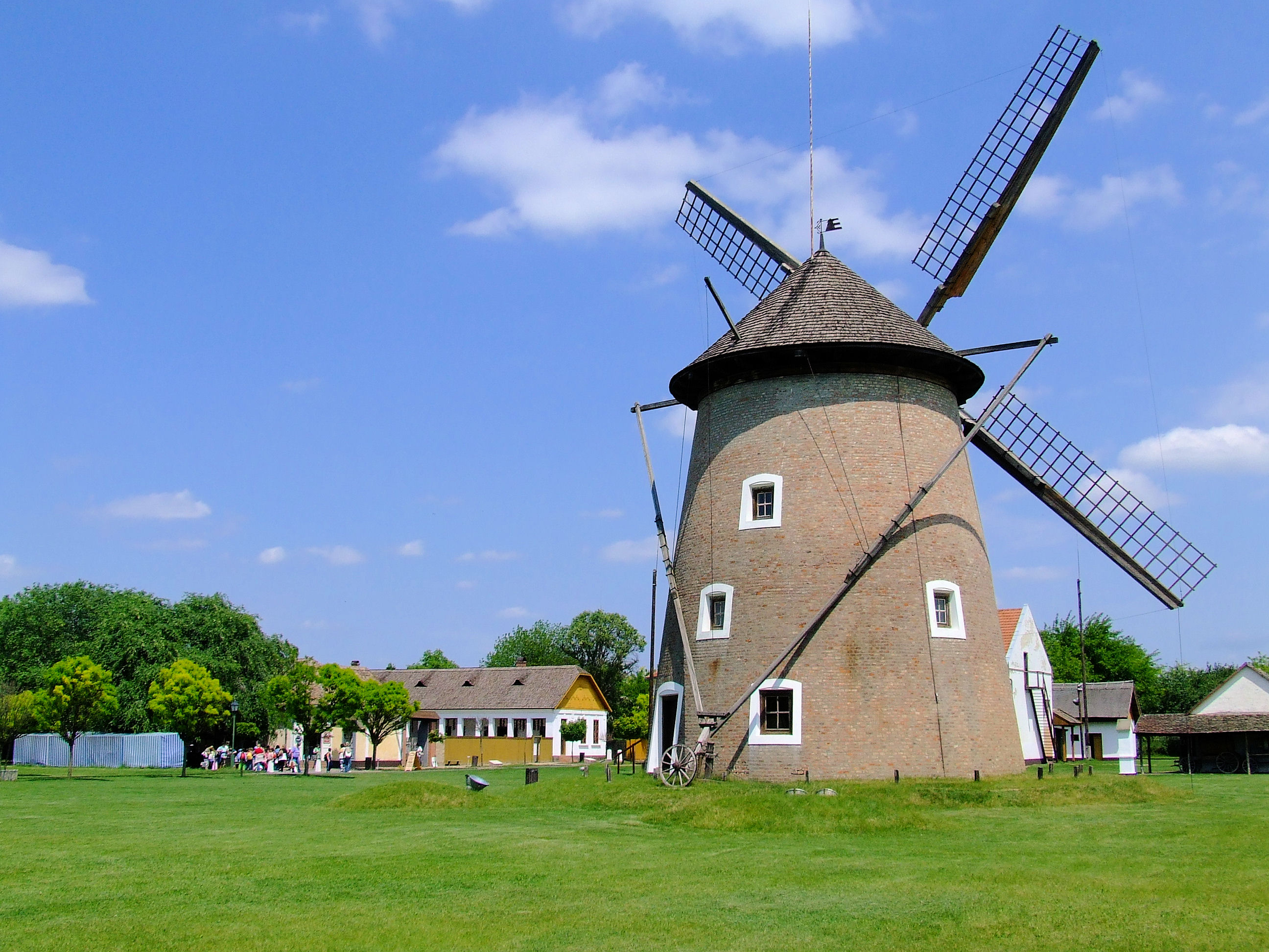 Windmill from Szentes Dónát. It was originally built in the second half of the 19th century